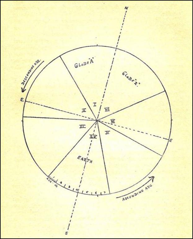 Figure from the Mahatma letter No 14.